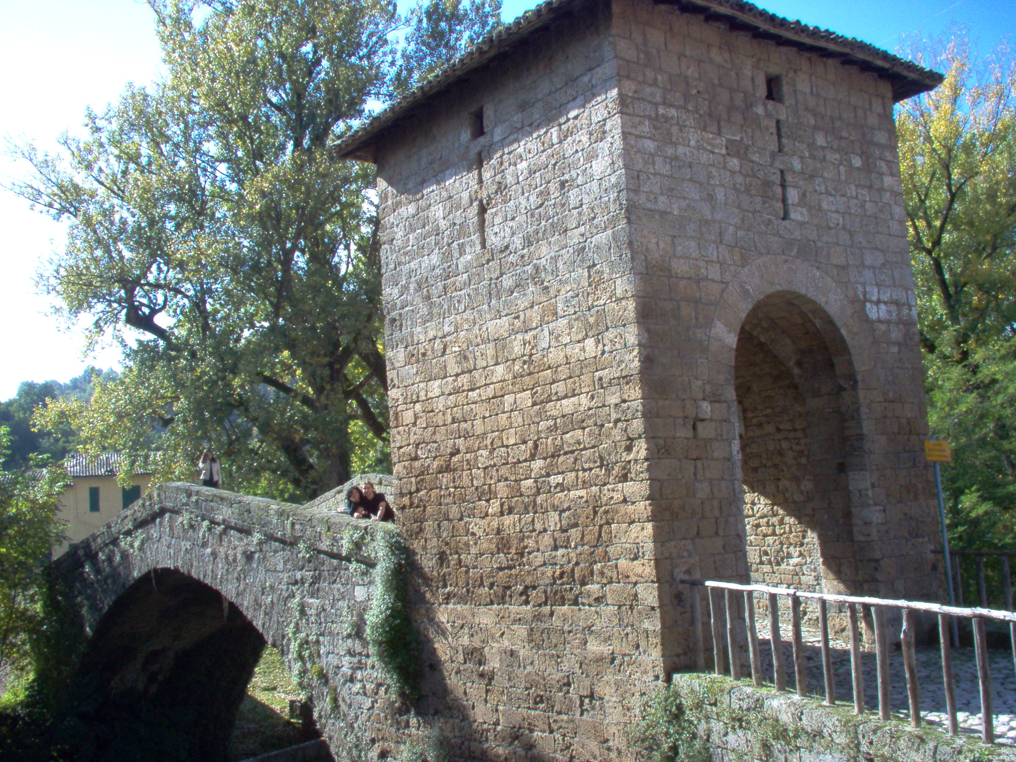 Personal photo (October 2005)